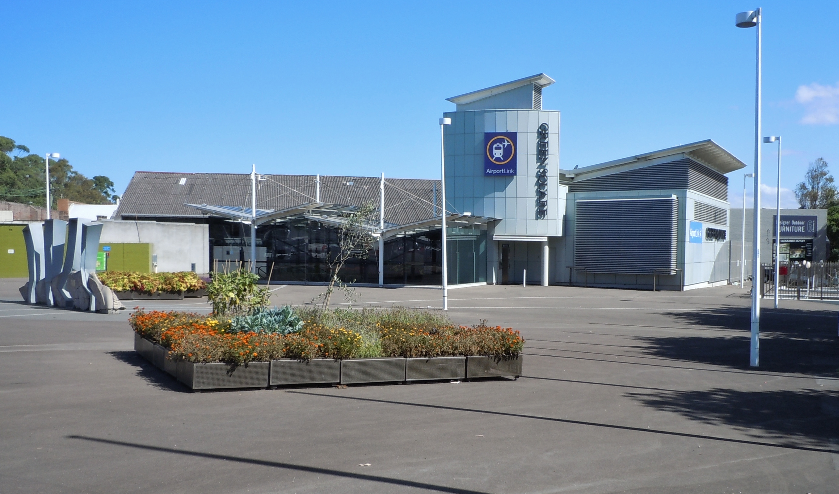 Transport Place at Green Square with the railway station in the background.